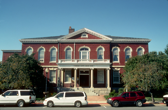 Front of the Somerset County Courthouse, located at 30512 Prince William Street in Princess Anne, Maryland, United States. It is part of the Princess Anne Historic District, which is listed on the National Register of Historic Places.